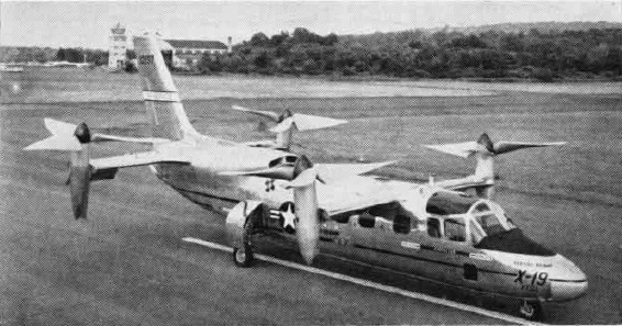 The first Curtiss-Wright X-19 in 1963.